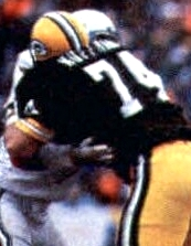 Green Bay Packers guard Tim Huffman pictured in an offensive play against the St. Louis Cardinals in the 1982 NFC First Round Playoff Game on January 8, 1983. }